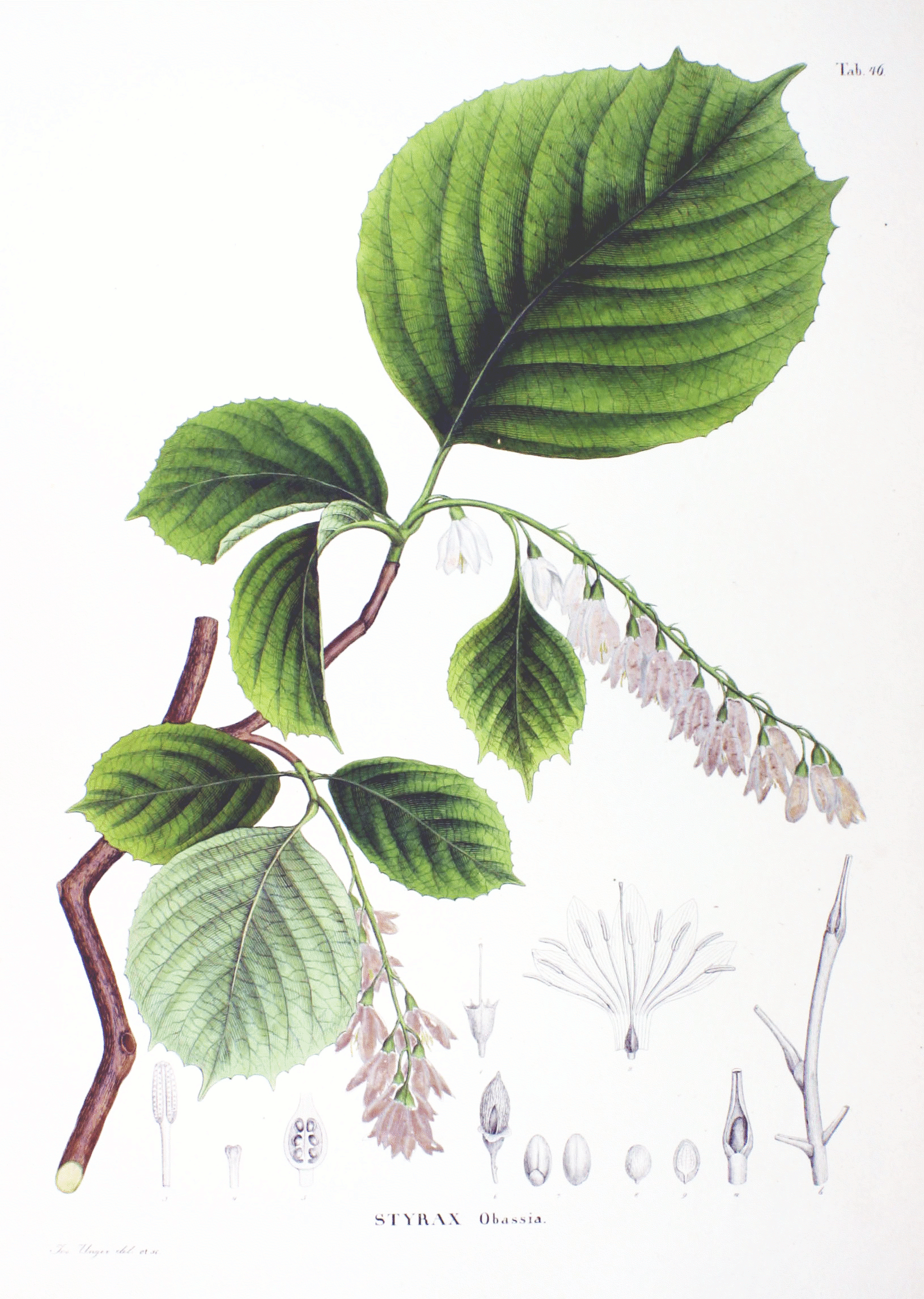 Plate from book